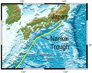 Location of the Nankai Trough off Southwestern Japan